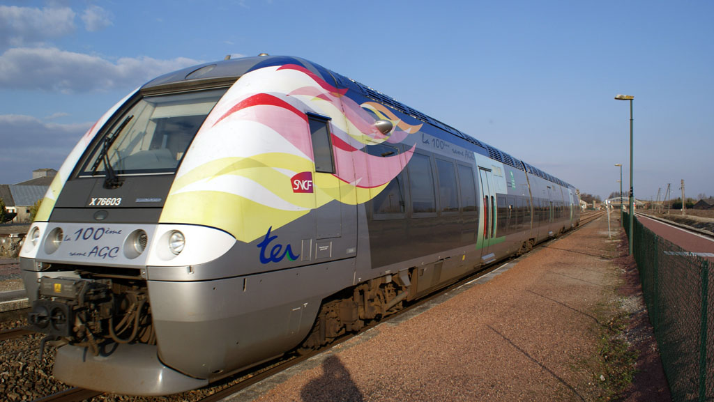 The car X 73603/604 of FOR THE THIRD TIME Picardy in station of Chaulnes, this is the " 100ème AGC" car